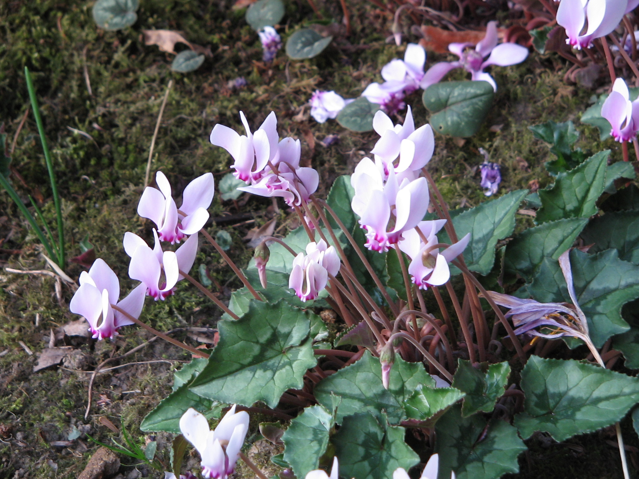 Cyclamen hederifolium - flowers & leaves